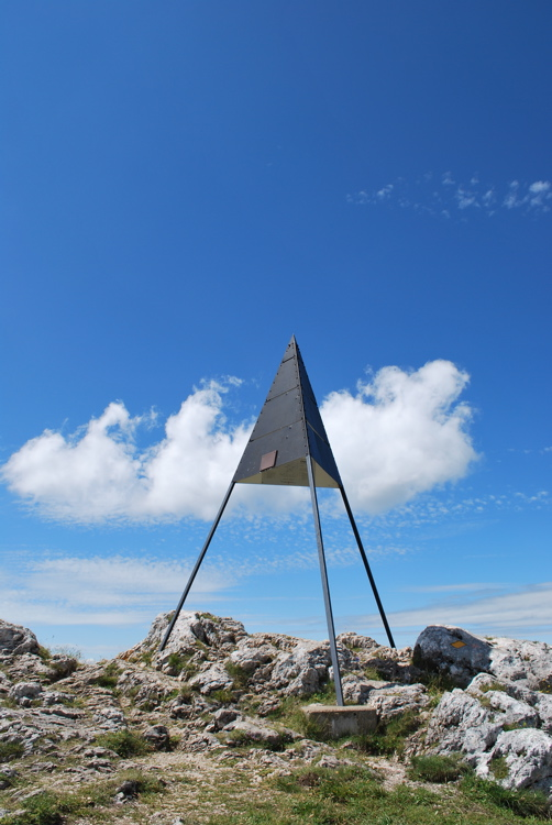 Picture of the top of Le Chasseron, Vaud, Switzerland.